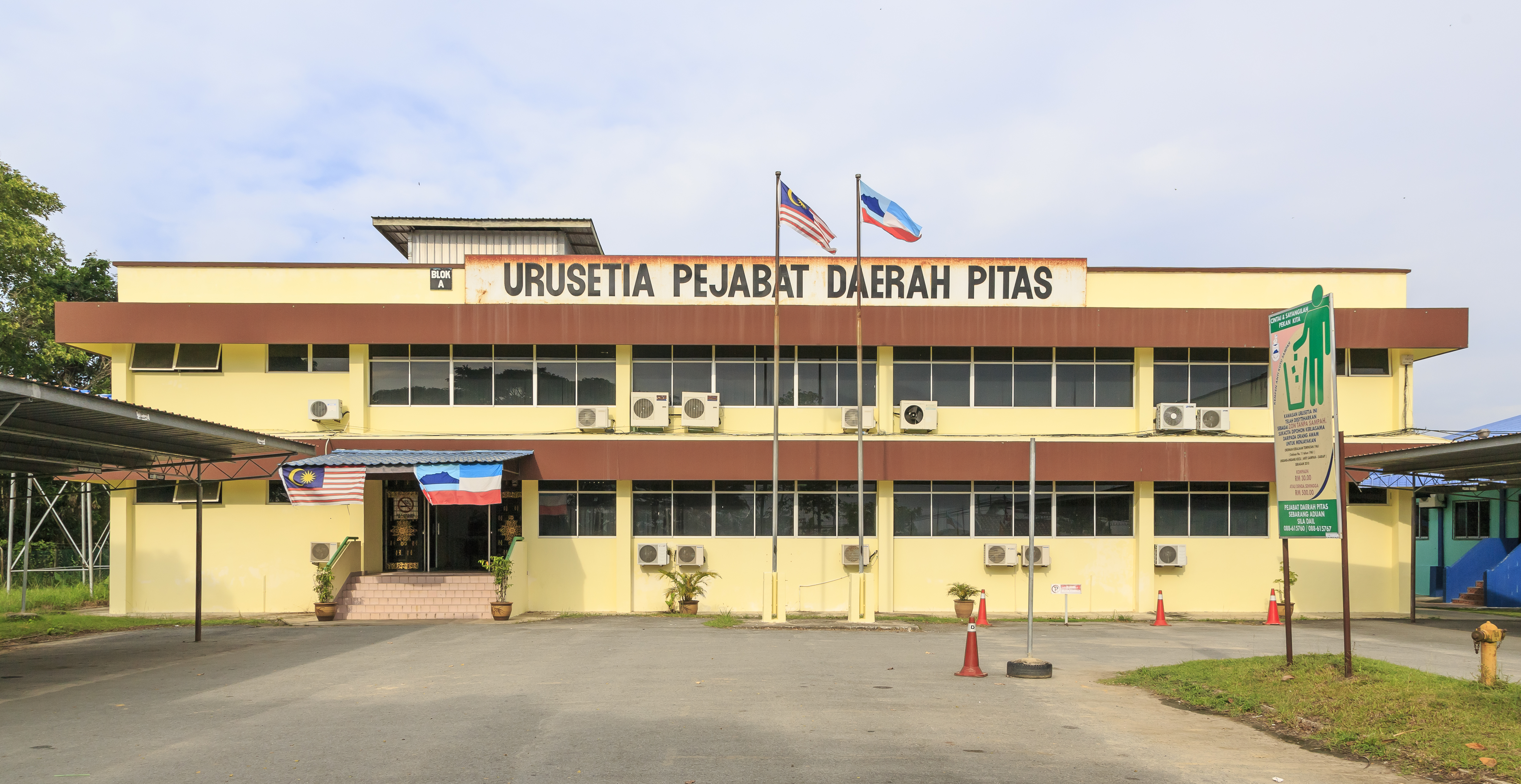 Pitas, Sabah: Pitas District Office (Pejabat Daerah Pitas)